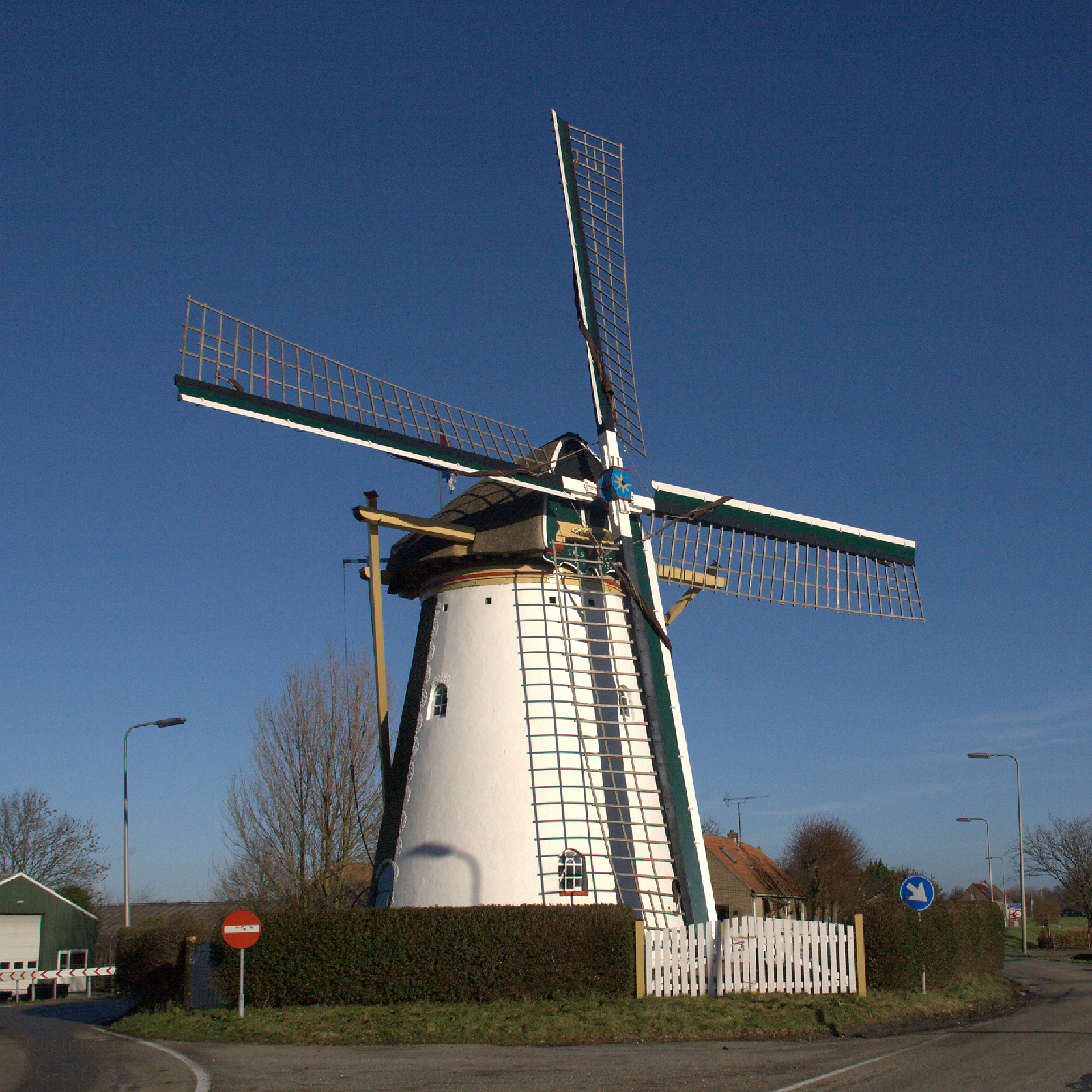 Rockanje, windmill